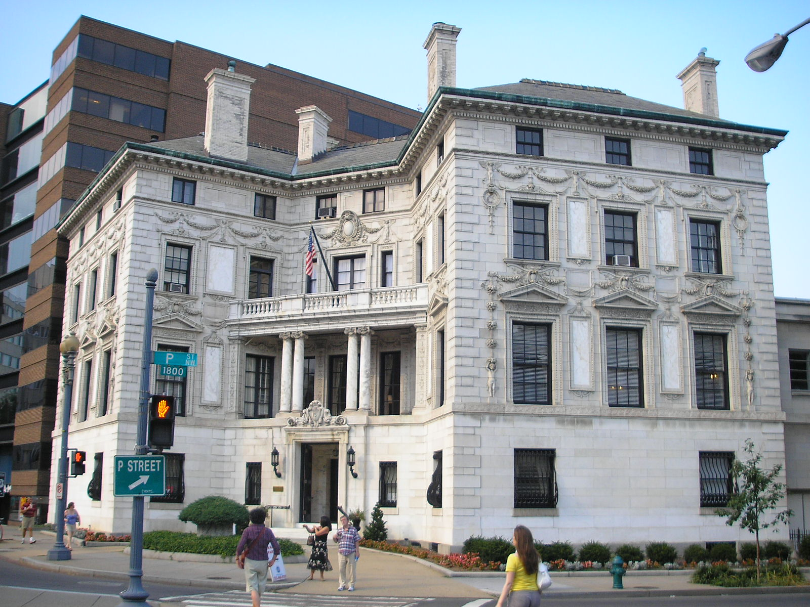 Seat of an institution at Dupont Circle, and at P Street.